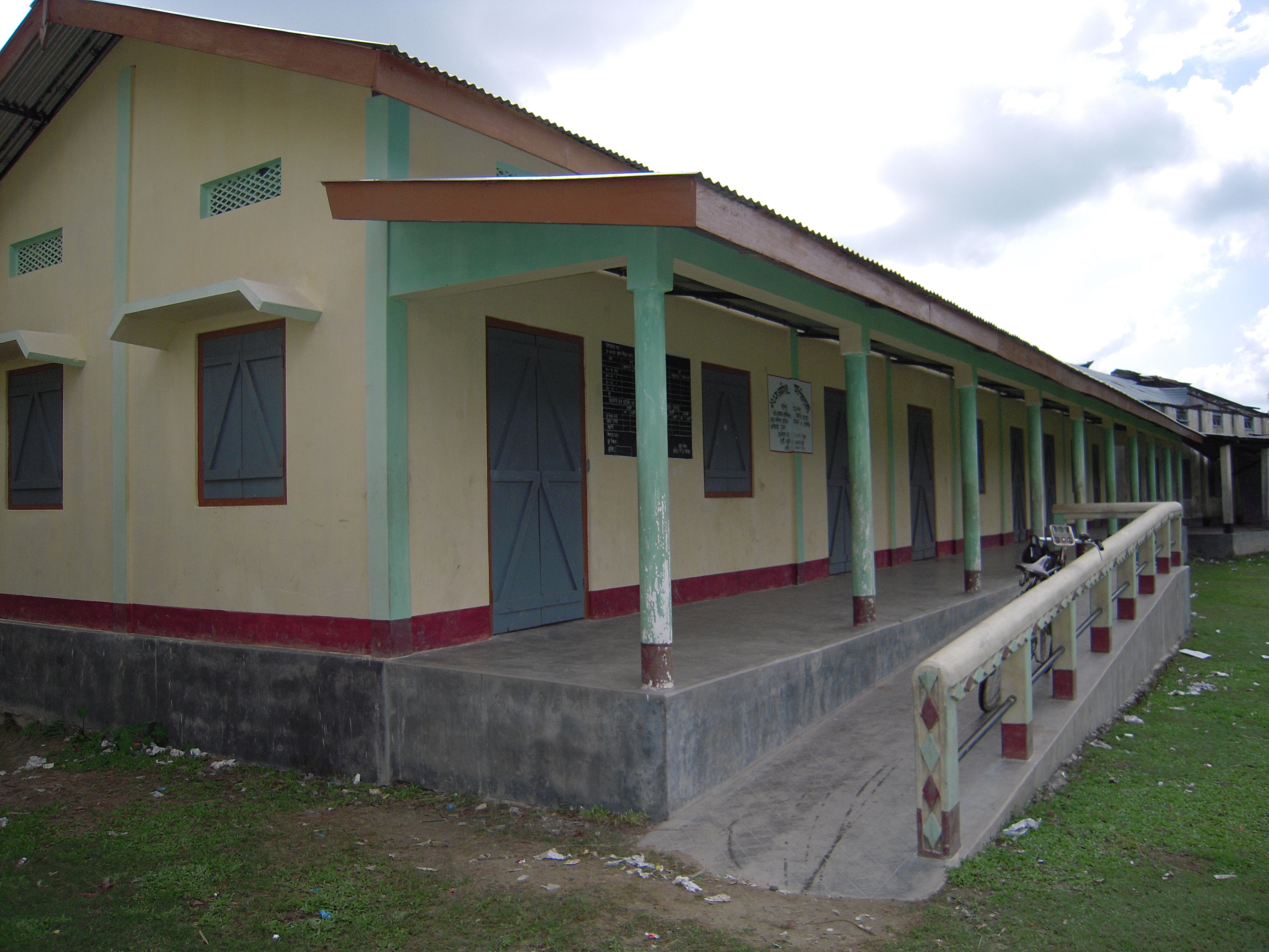 Lakhiganj Maktab Bidyalaya